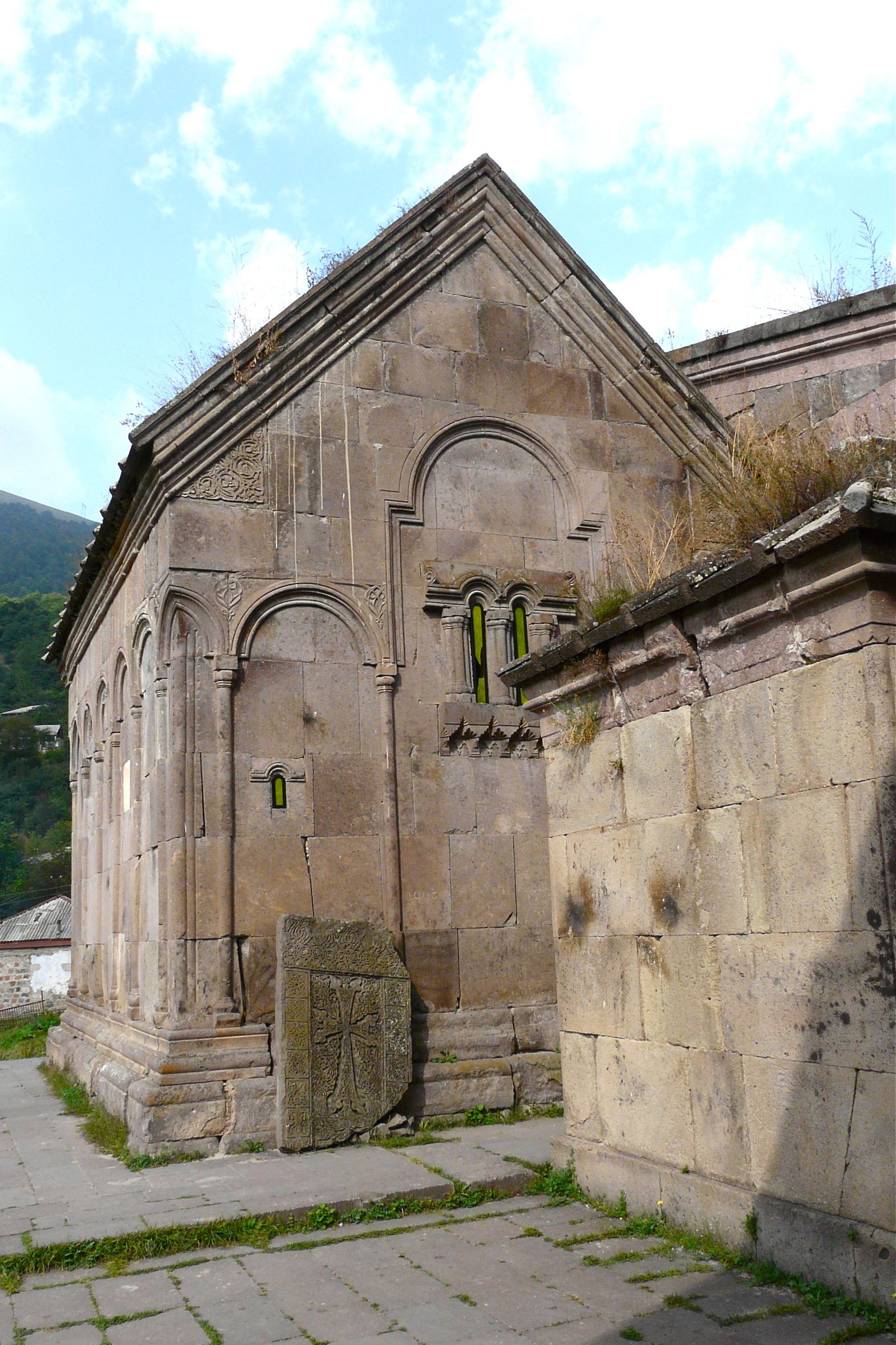 Sourp Grigor Lousavorich, Goshavank, Armenia.